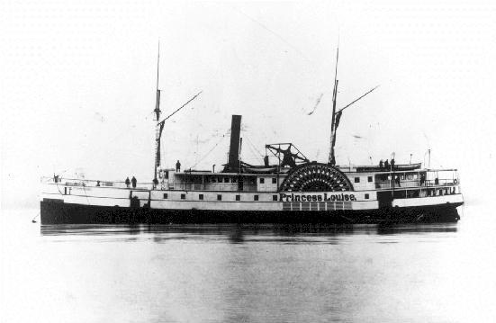 Sidewheel steamboat Princess Louise near Masset, British Columbia, Queen Charlotte Islands 1880 (now officially known as Haida Gwaii).